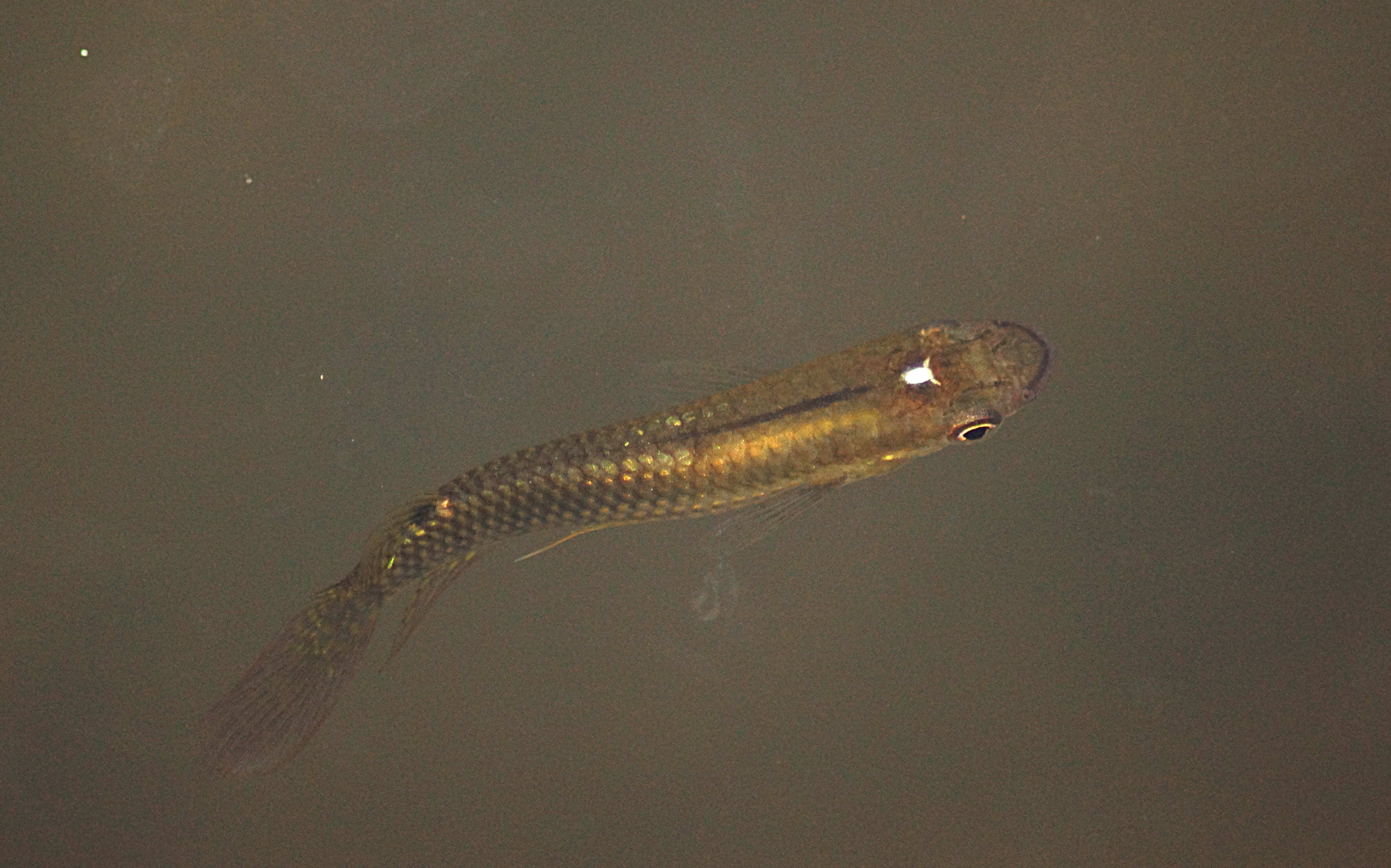 Aplocheilus panchax, Kerala,India